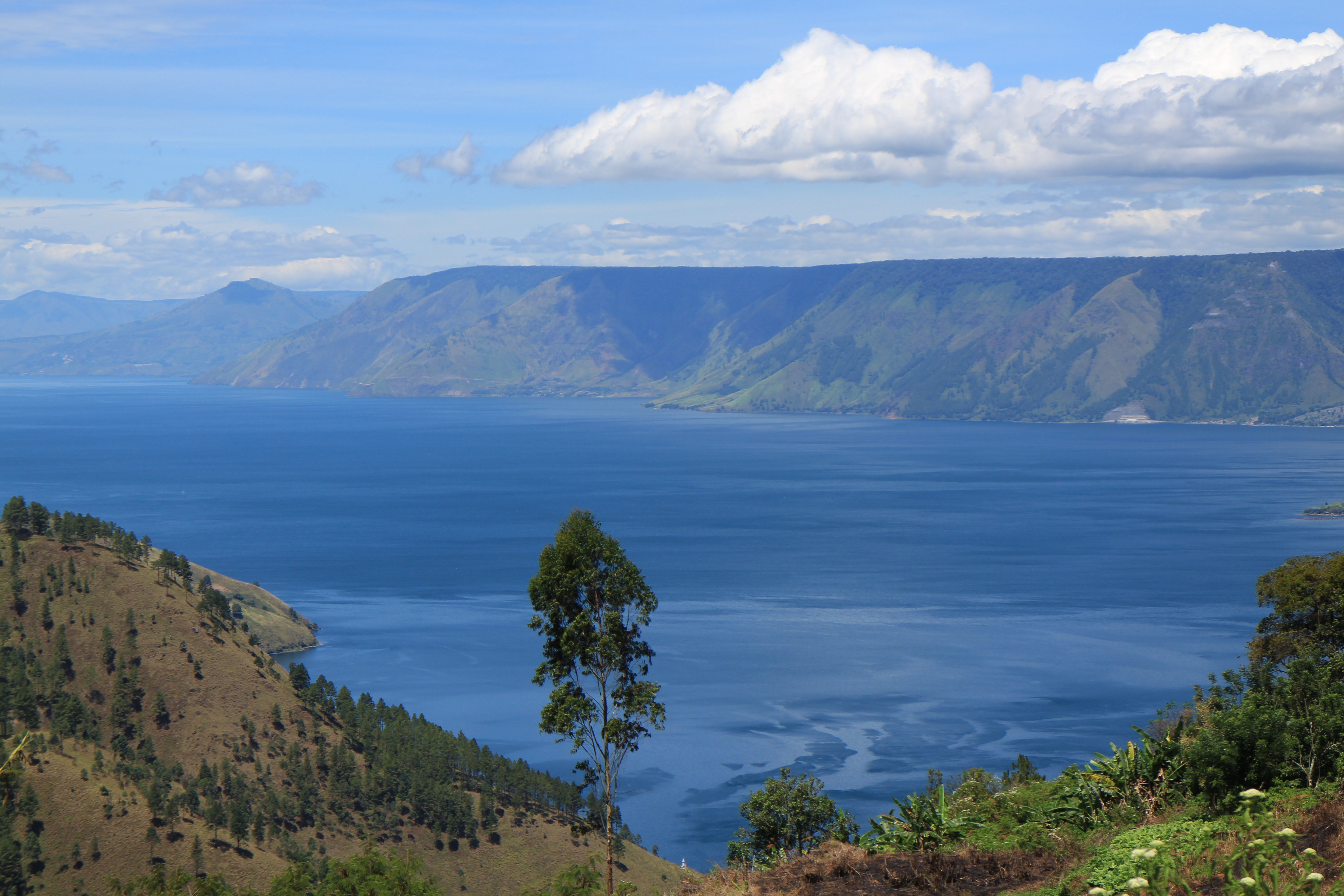 Toba lake as seen from Merek It's one of the best view point to enjoy the magnificent Toba lake